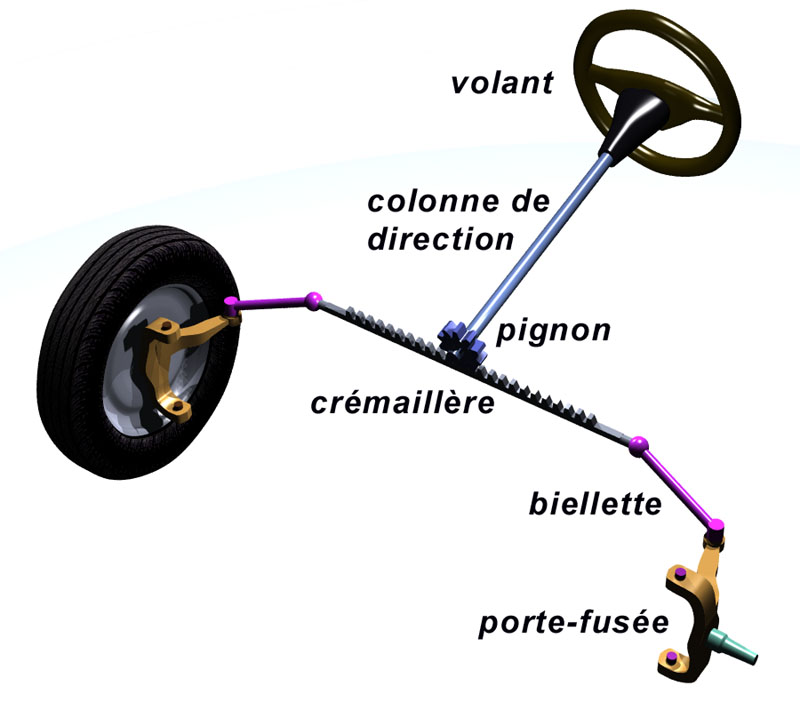 car steering scheme (with rack) - drawing with french legend